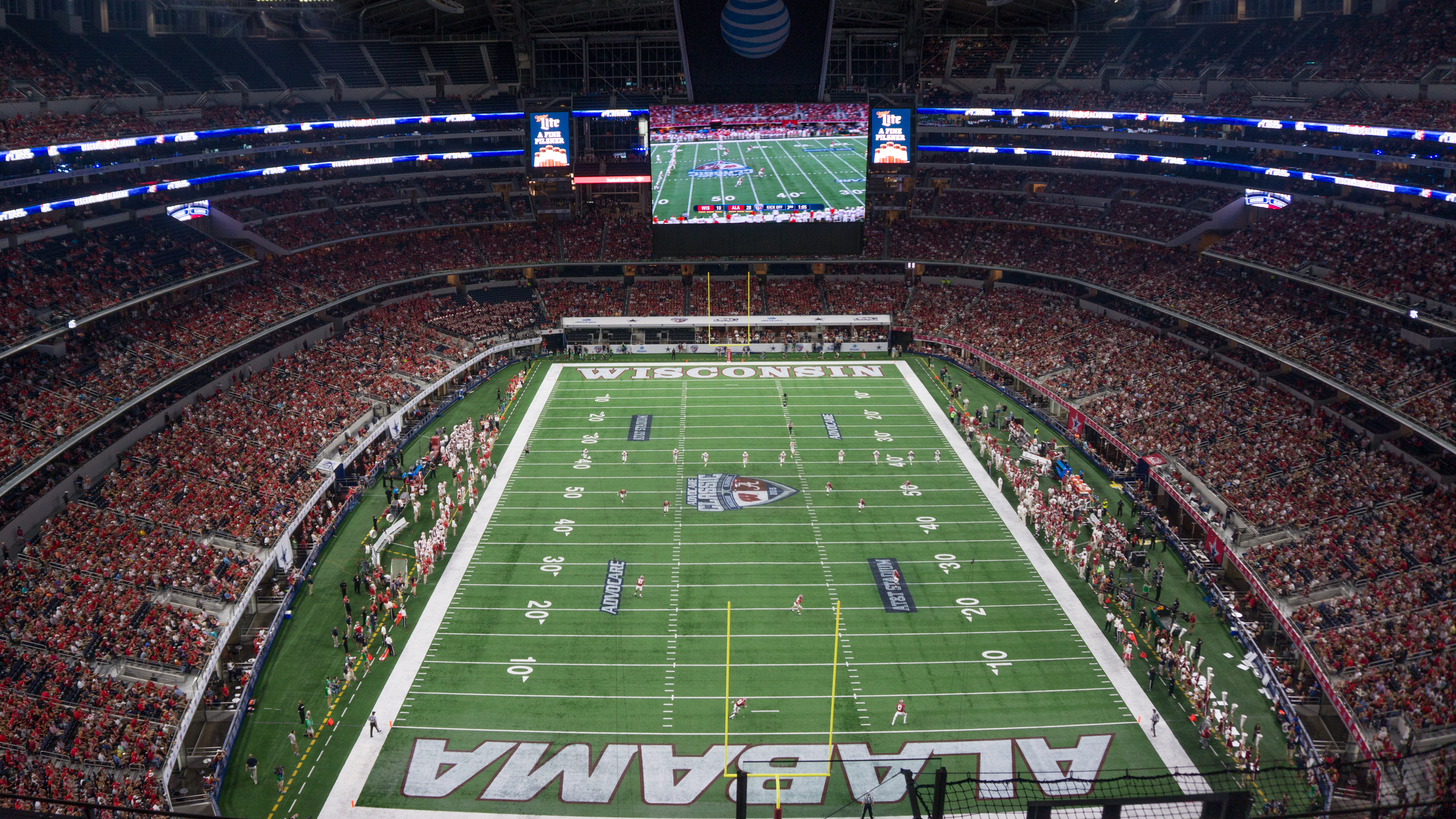 Opening kickoff of the 2016 Advocare Classic between Alabama and Wisconsin at AT&T Stadium.